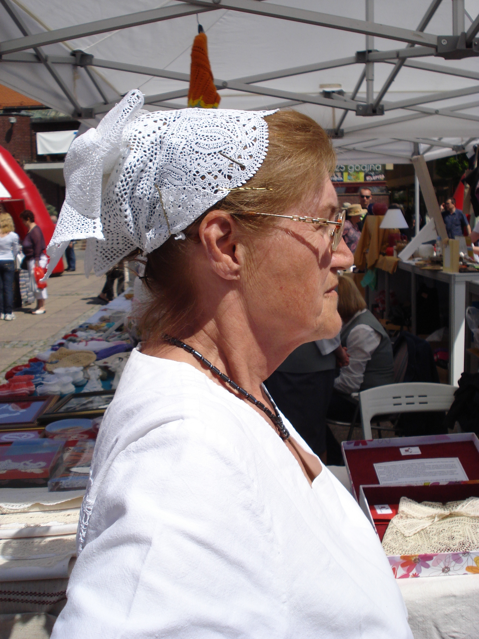 Poculica (Potsulitsa) - traditional lace cap of Medjimurje County, Croatia (carrying the official label "Croatian creation")